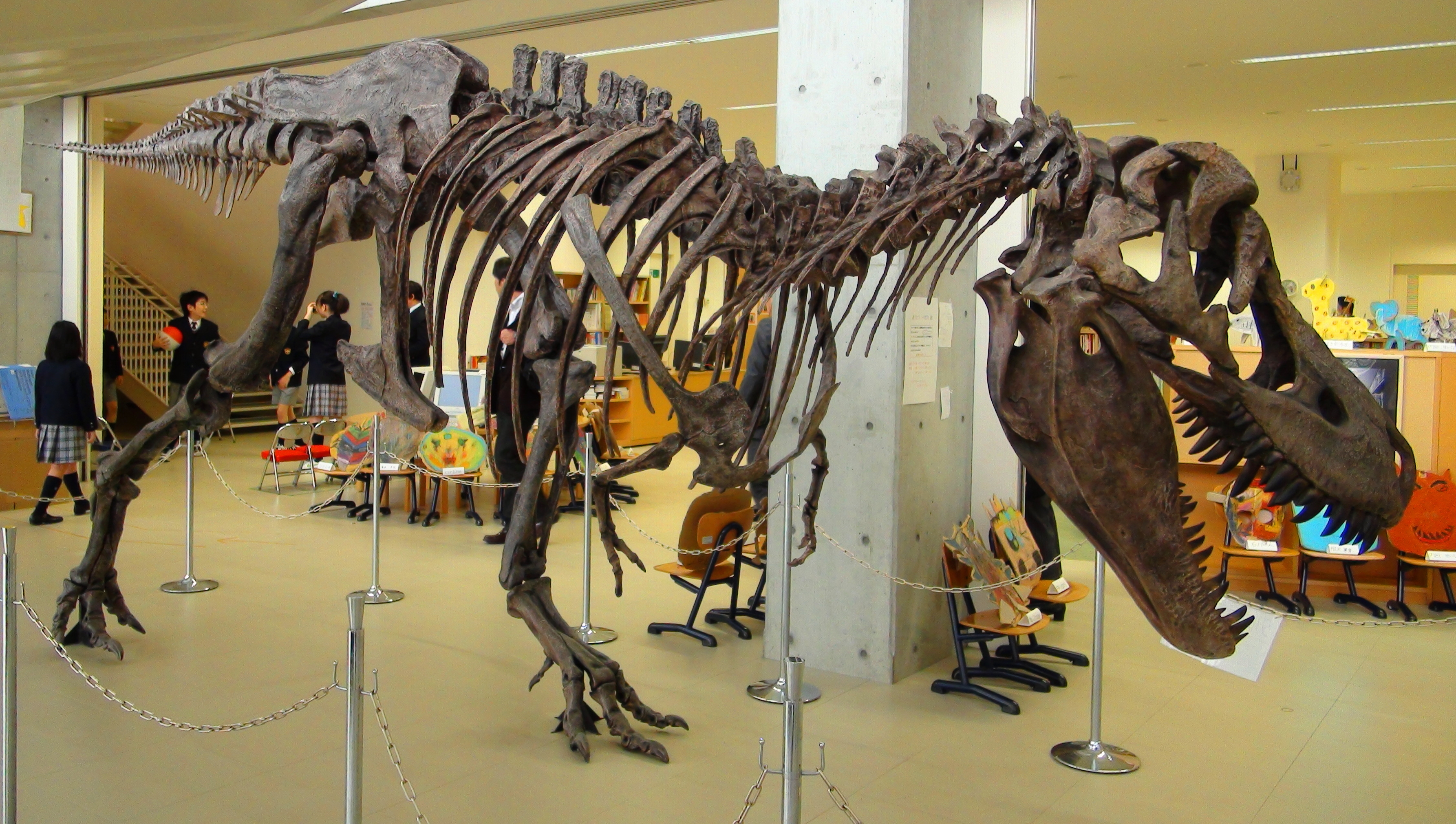 Yamanashigakuin elementary school Tarbosaurus frame replica（Because it was a school festival, I can photograph it after a security check）